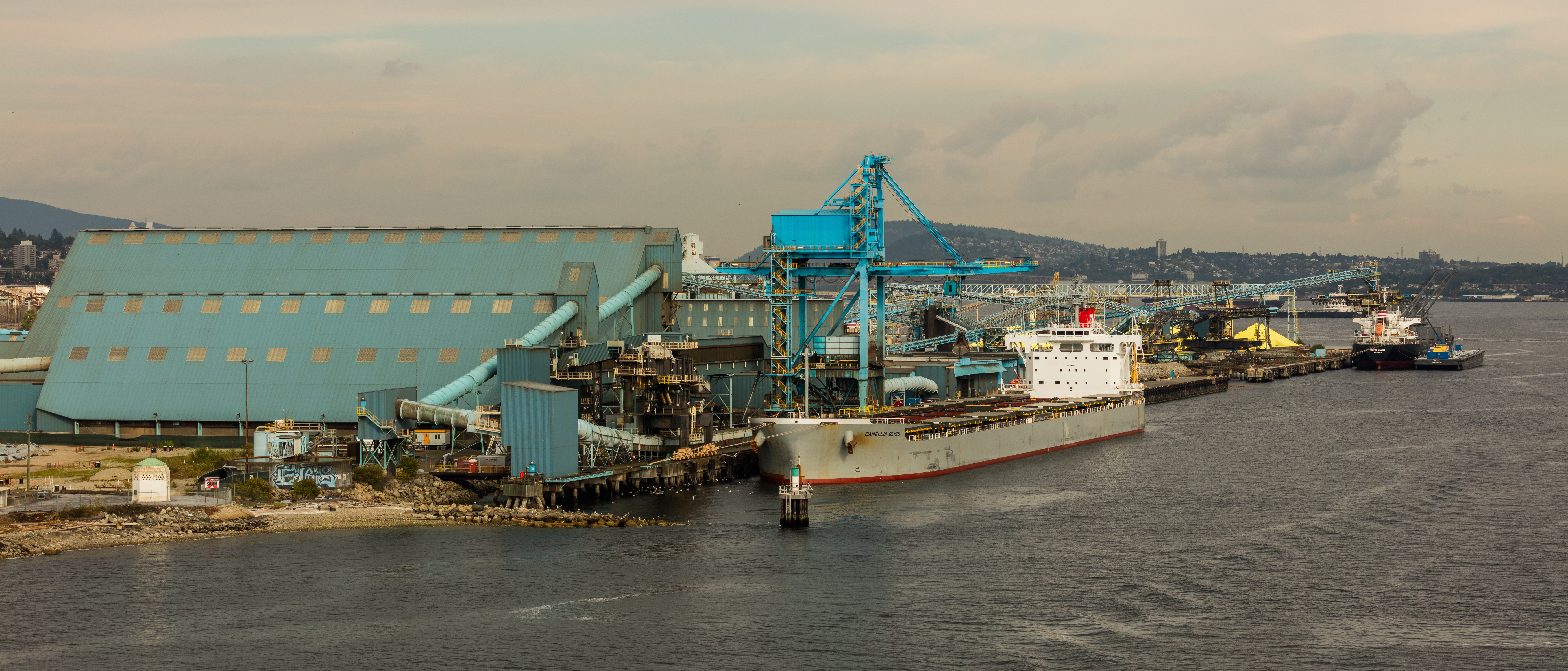 Vancouver commercial harbour, Canada